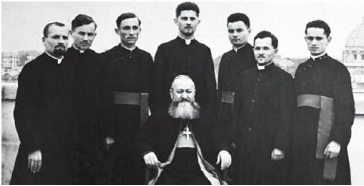 Alexander Ratiu is the 5th person from the left to the right on the back row. Bishop Valeriu Traian Frenţiu (1872-1952) is sitting. Before May 1947, when he was arrested for his opposition to the Communist dictatorhips, Alexander Ratiu had served as a priest in Giurtelecu Şimleului. After only a few months of freedom in 1948, Ratiu was imprisoned and confined to labor camps until 1964.